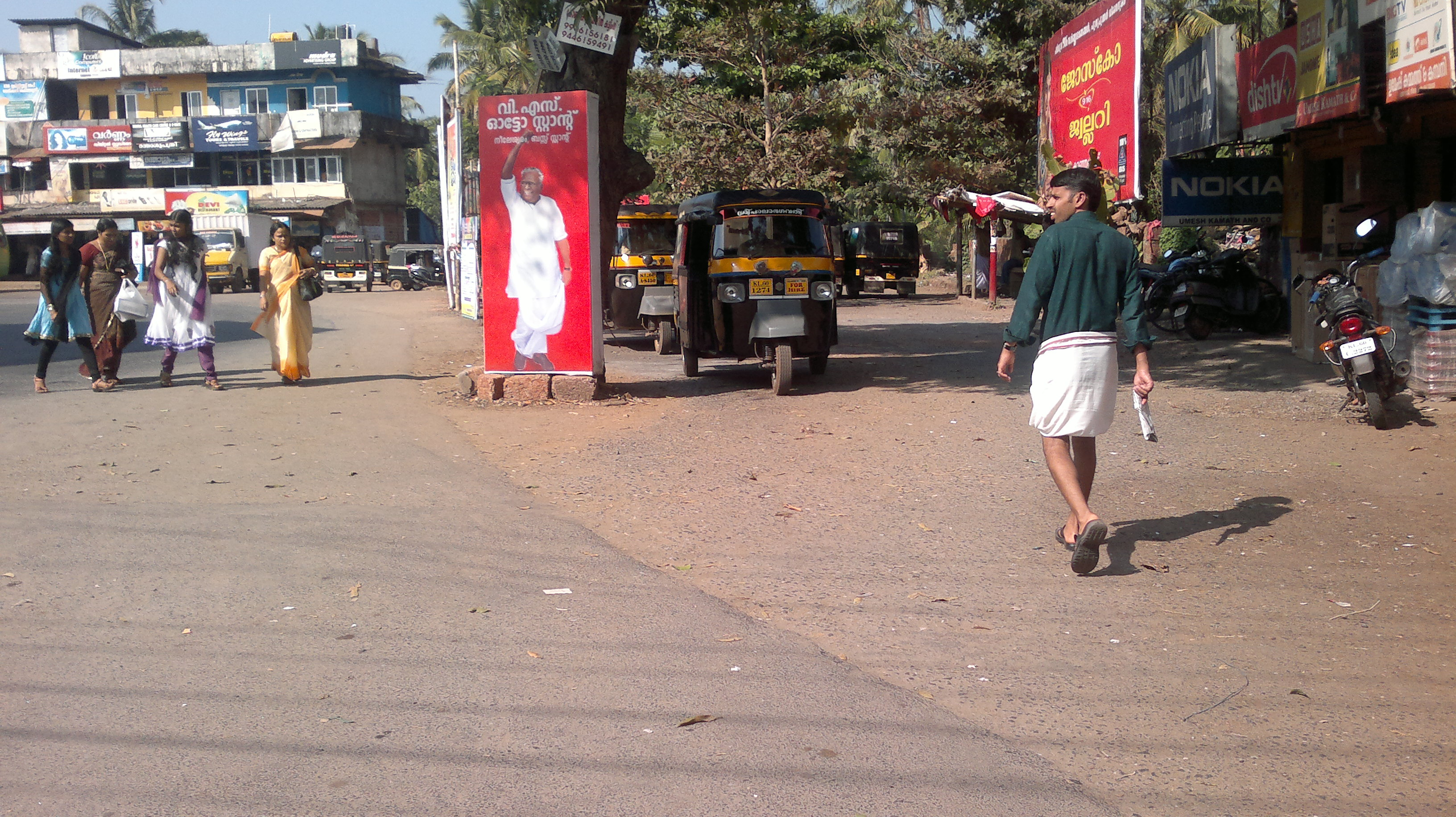 Bus Stand Nileswer